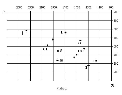 Based on Labov et al., "The Atlas of North American English"; averaged F1/F2 means for speakers from the Midland dialect area